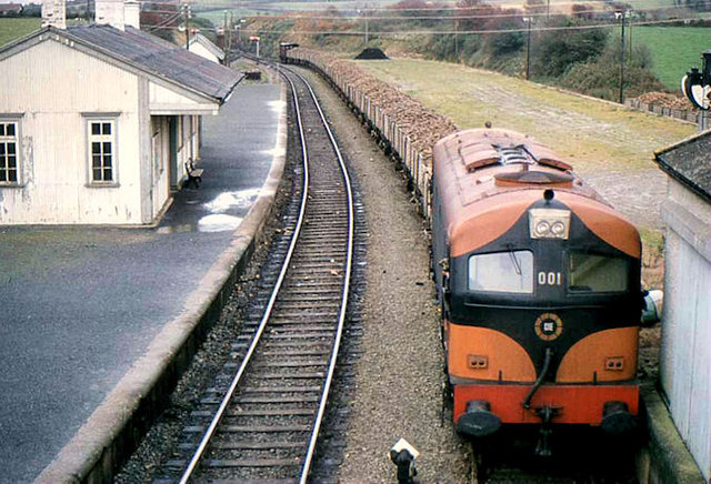 Beet train, Ballycullane. CIE locomotive 001, at the head of a Wellingtonbridge � Campile beet transfer, passing Ballycullane station. It has an island platform similar to Campile 2851436. 2234356 shows the station in 1993 after removal of the loop etc.